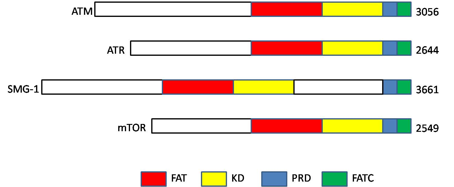 Conserved domains of different member of the PIKKs family